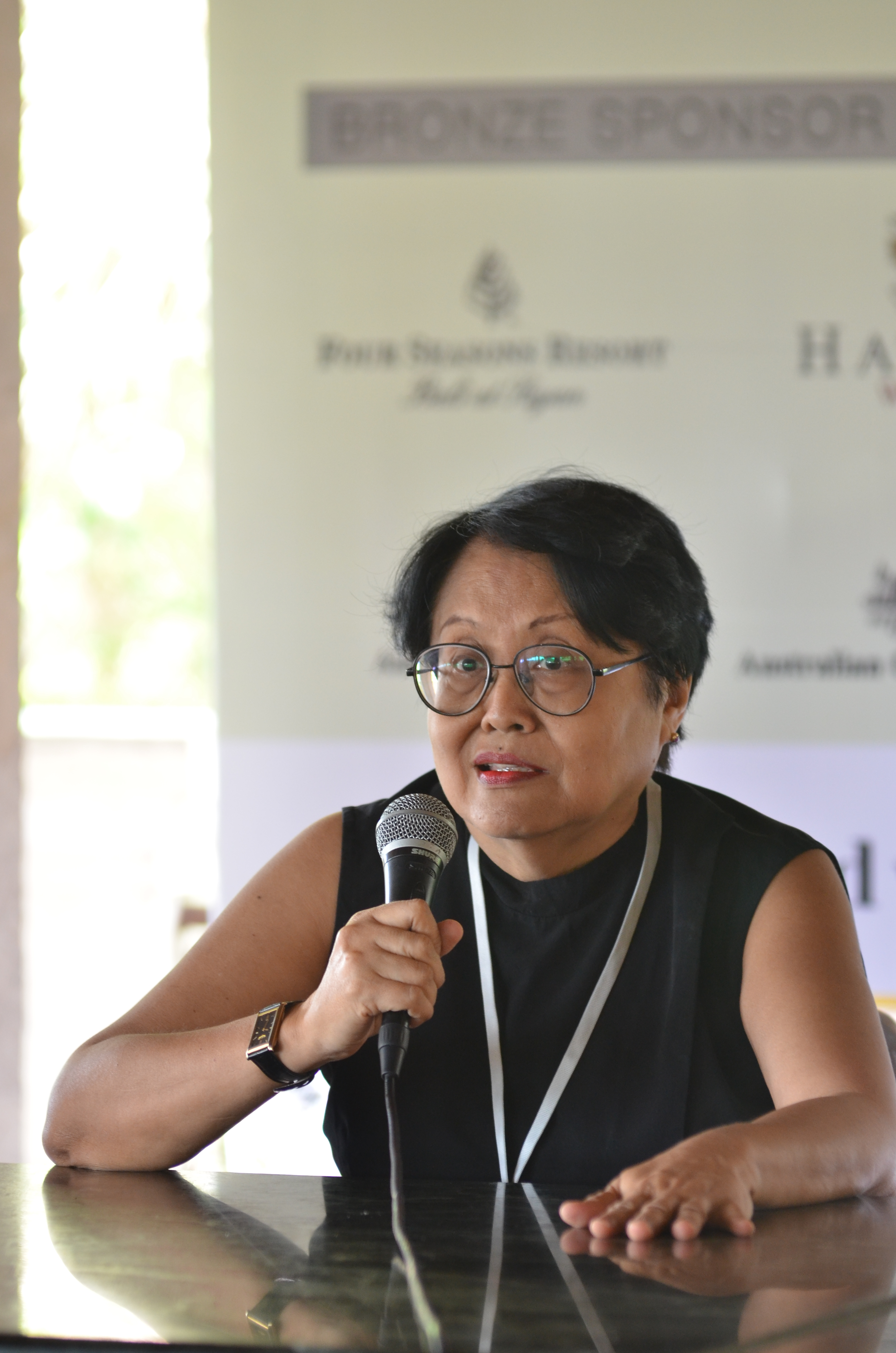 Ubud Writers & Readers Festival 2012. Image credit Anggara Mahendra.